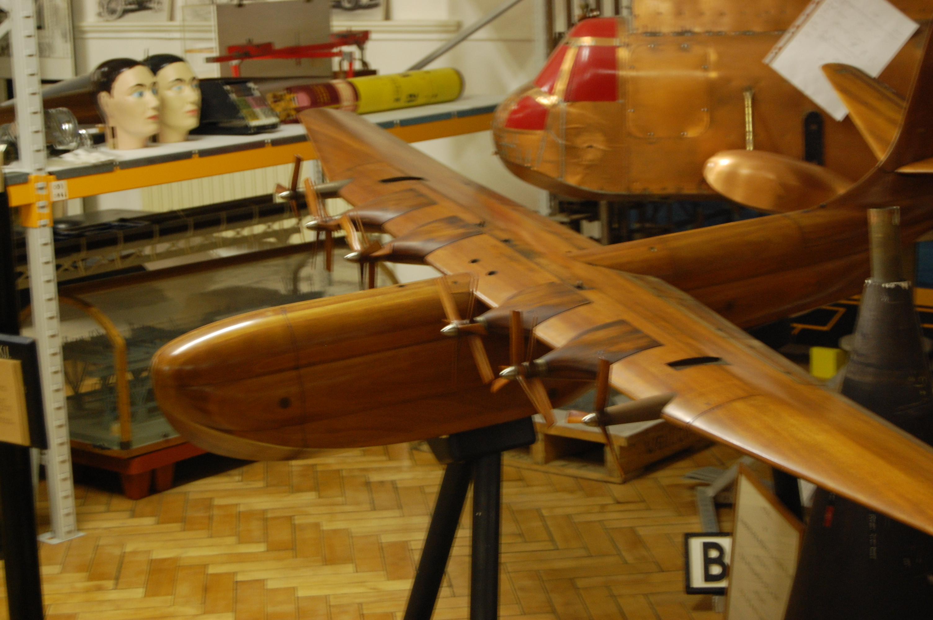 Wooden aircraft windtunnel model in the Science Museum's Blythe House, Science Museum small objects store